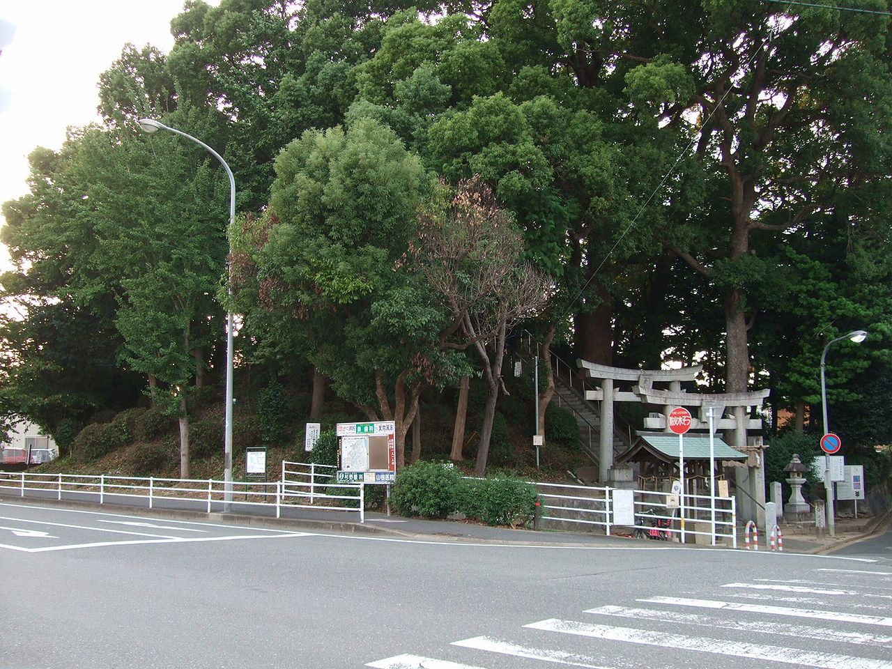 Naka Hachiman Kofun, Hakata Ward, Fukuoka City, Fukuoka, Japan.